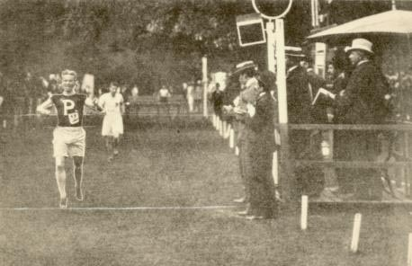 2500 meters steeplechase finish at the 1900 Olympic Games photography, reproduction, no restrictions on use